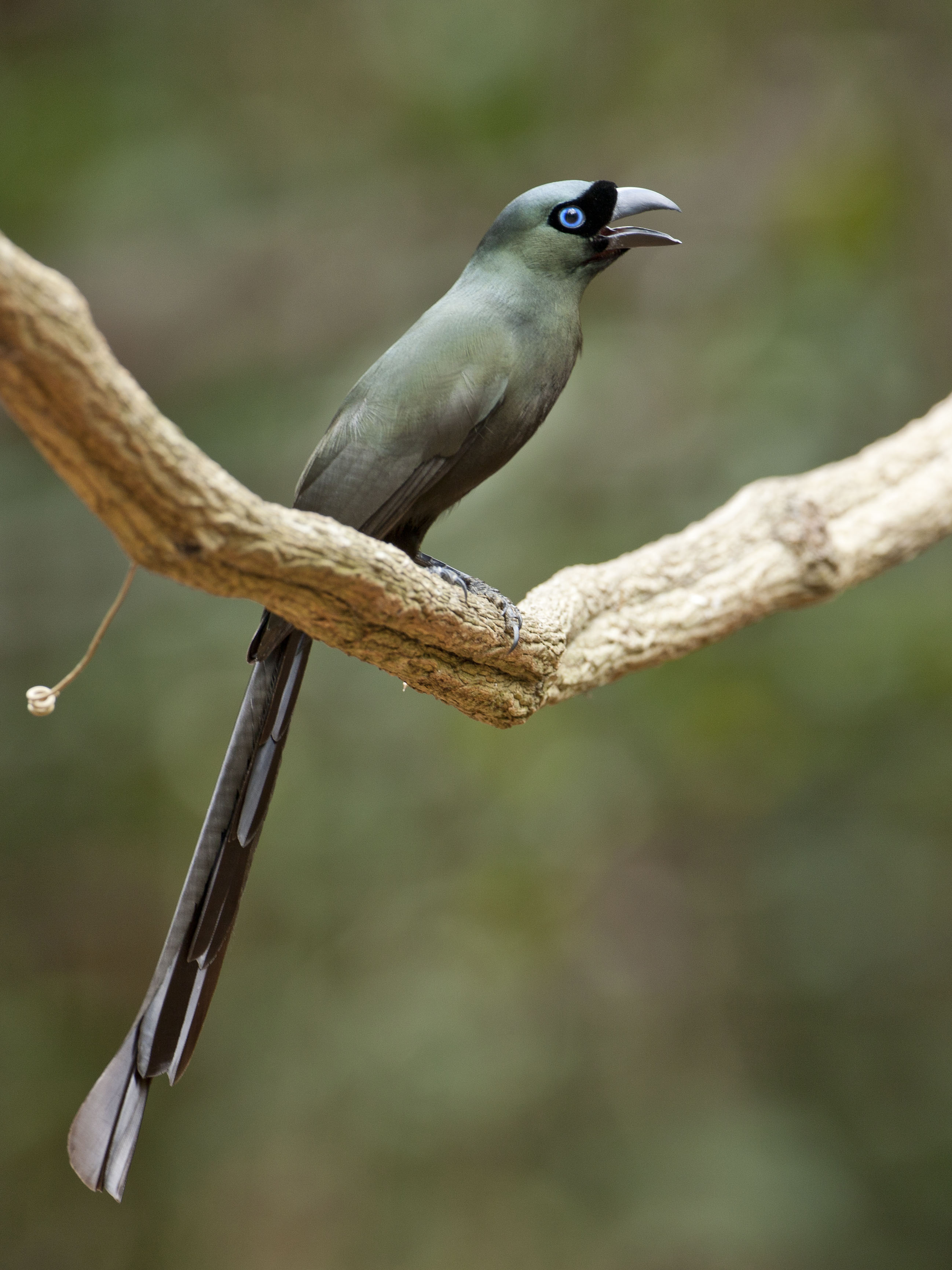 Racket-tailed Treepie Crypsirina temia, Kaeng Krachan NP, Thailand